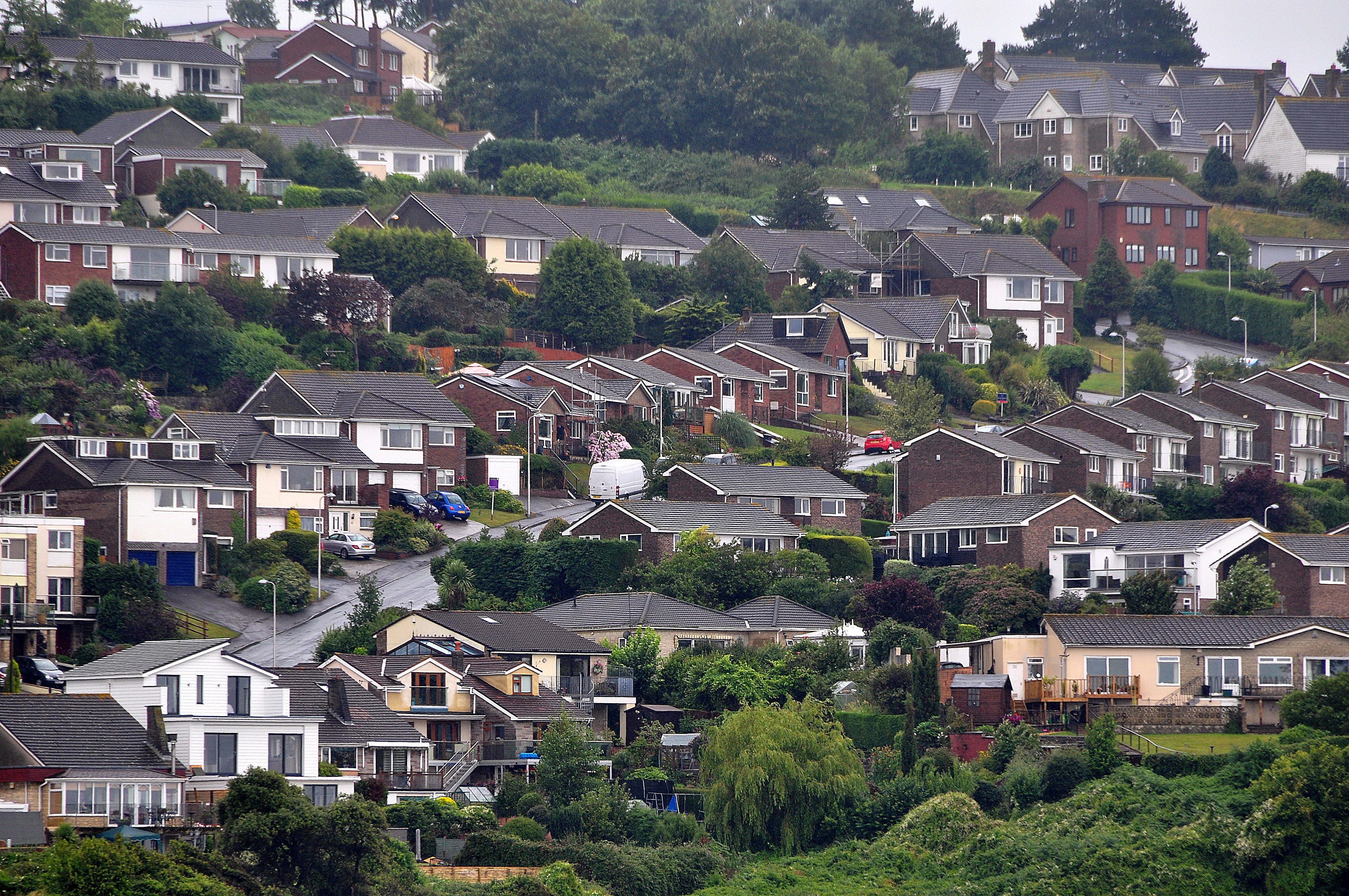 Portishead : Portishead Scenery